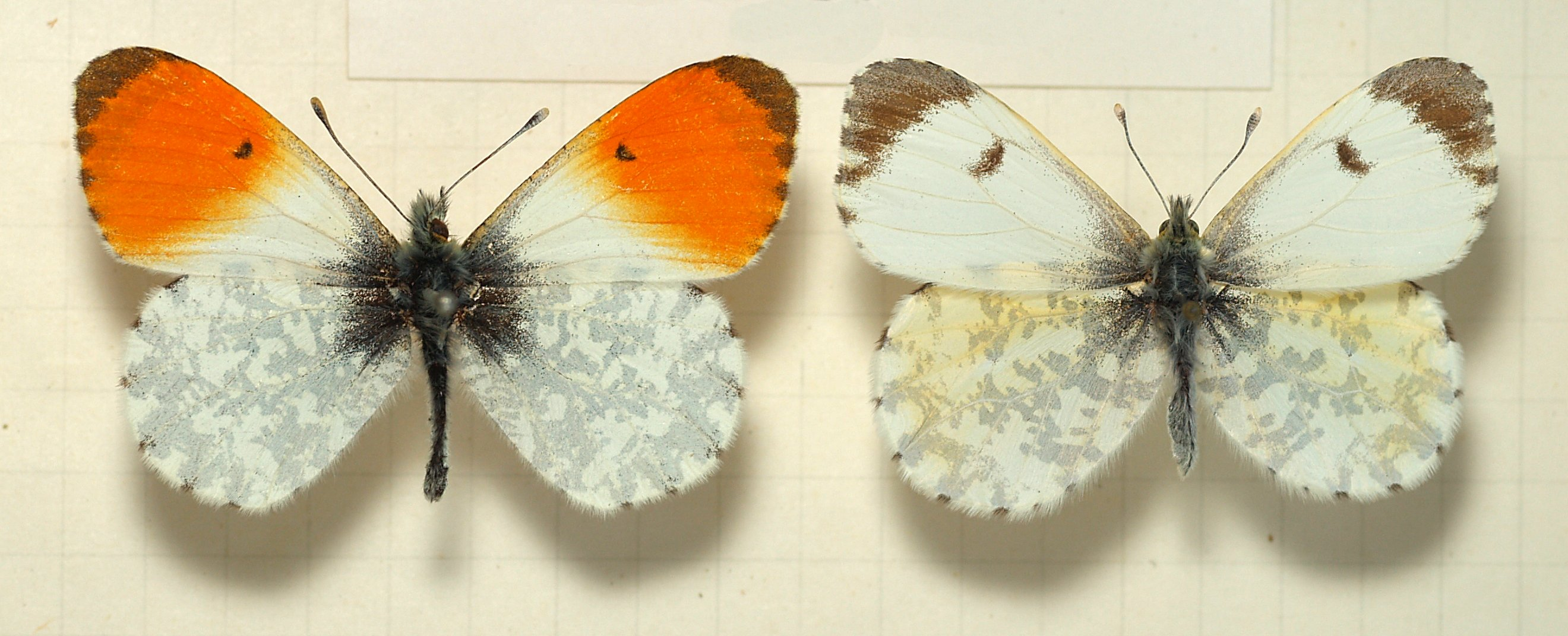 Anthocharis cardamines male and female